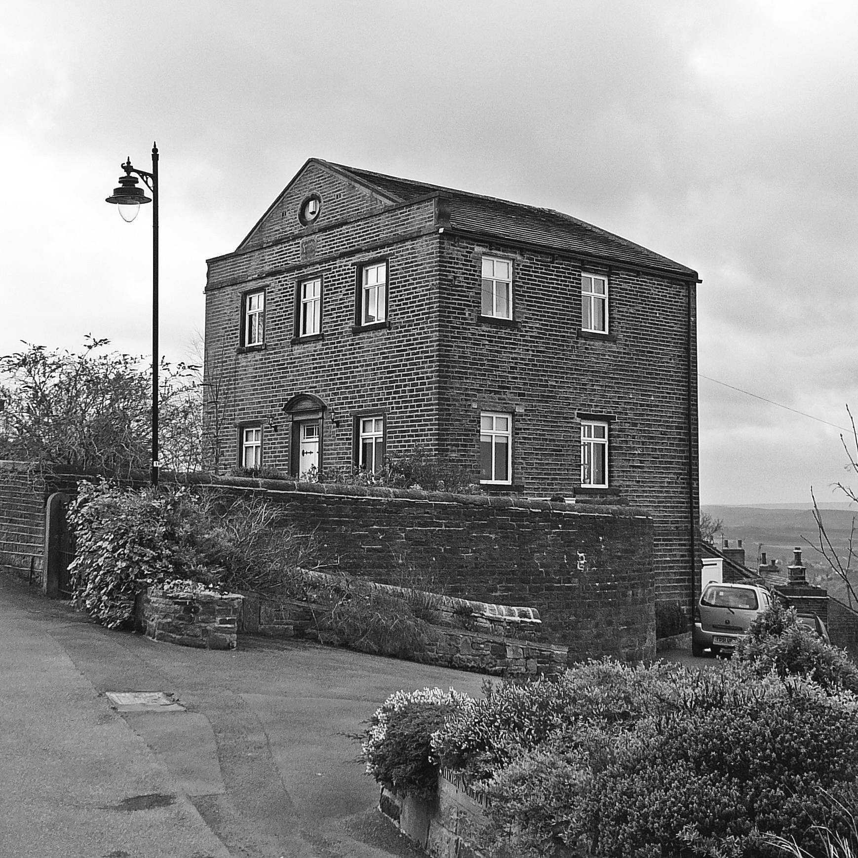 Dissenters Chapel Thurstonland, used by Anglicans before St Thomas's Church, Thurstonland, was built in 1870.